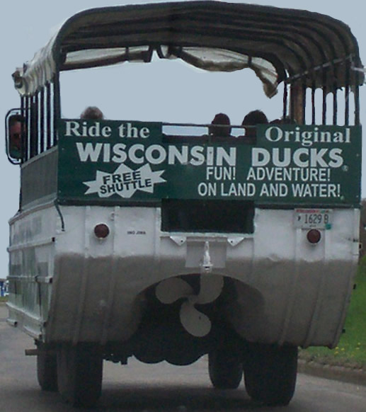 A DUKW travelling on Wisconsin Highway 23 and U.S. Route 12 in Wisconsin Dells, Wisconsin, USA.